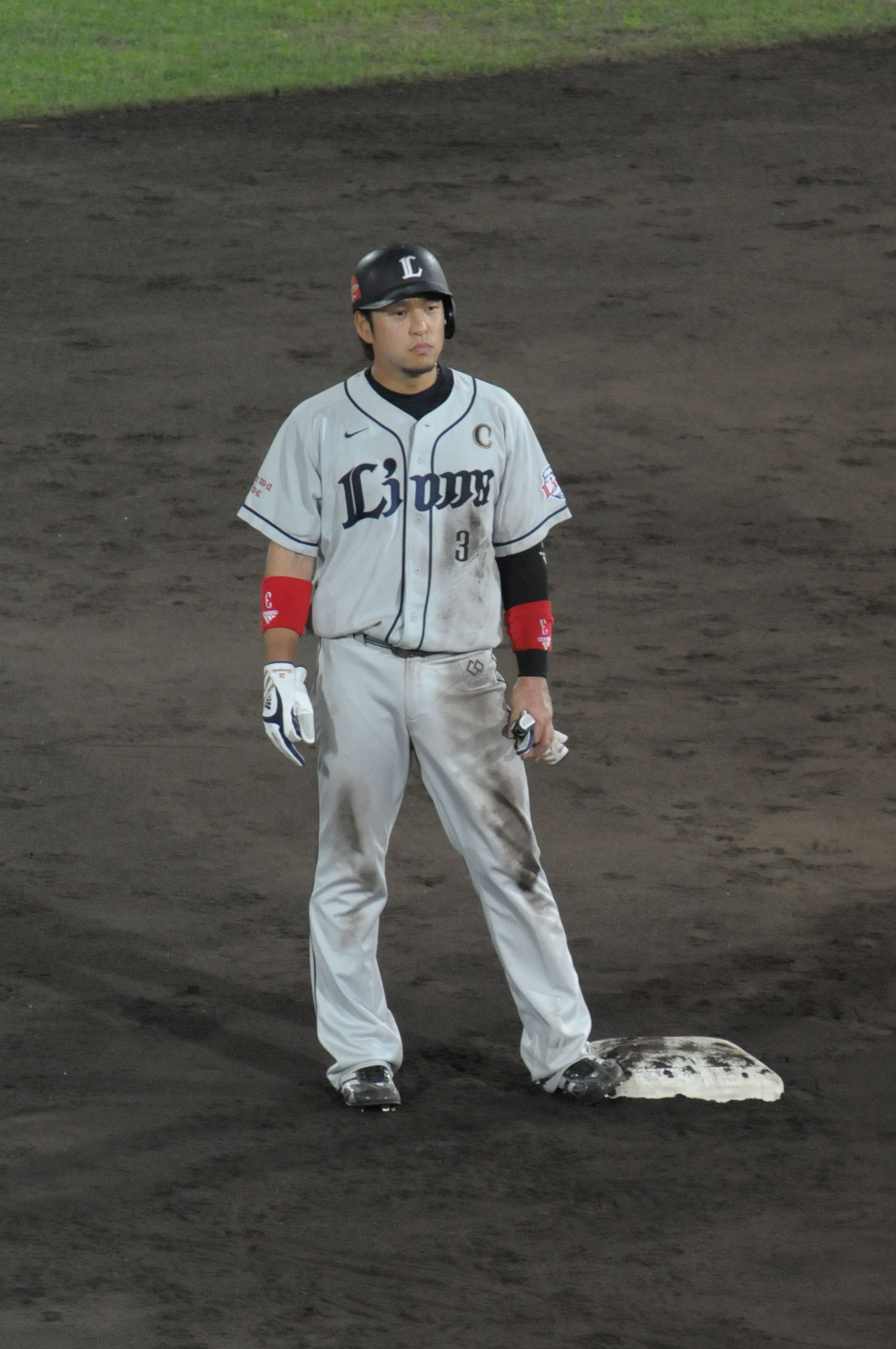 Hiroyuki Nakajima, infielder of the Saitama Seibu Lions, at Akita Prefectural Baseball Stadium.